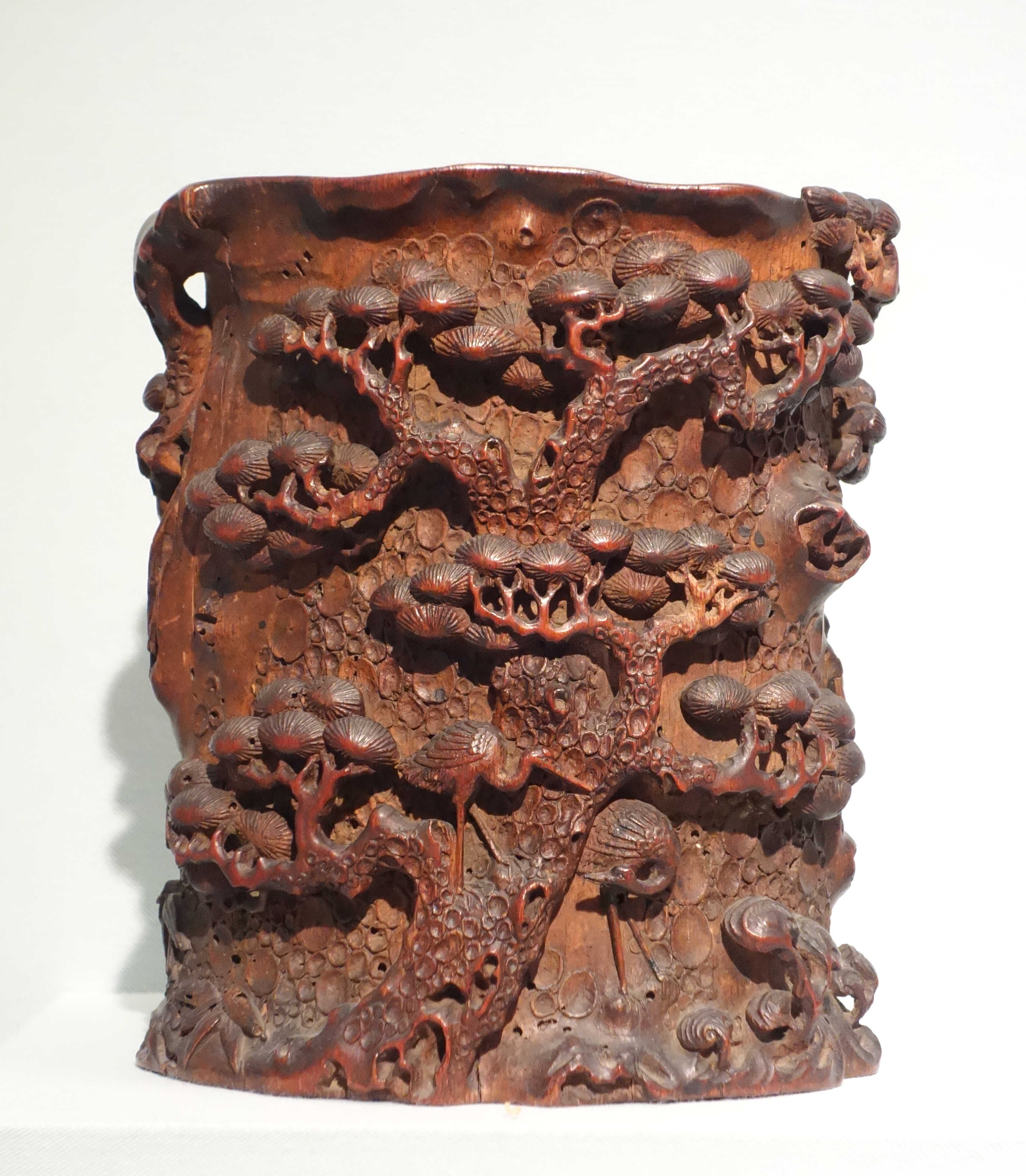 Exhibit in the Asian Art Museum of San Francisco, San Francisco, California, USA. This artwork is in the public domain because the artist died more than 70 years ago.